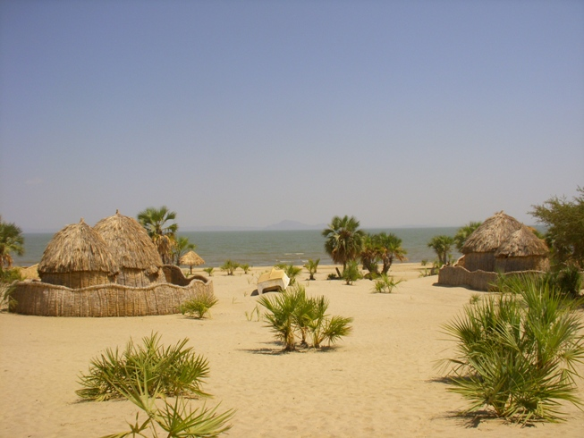 Eliye Springs Hotel Guest Huts and view of Lake Turkana in background